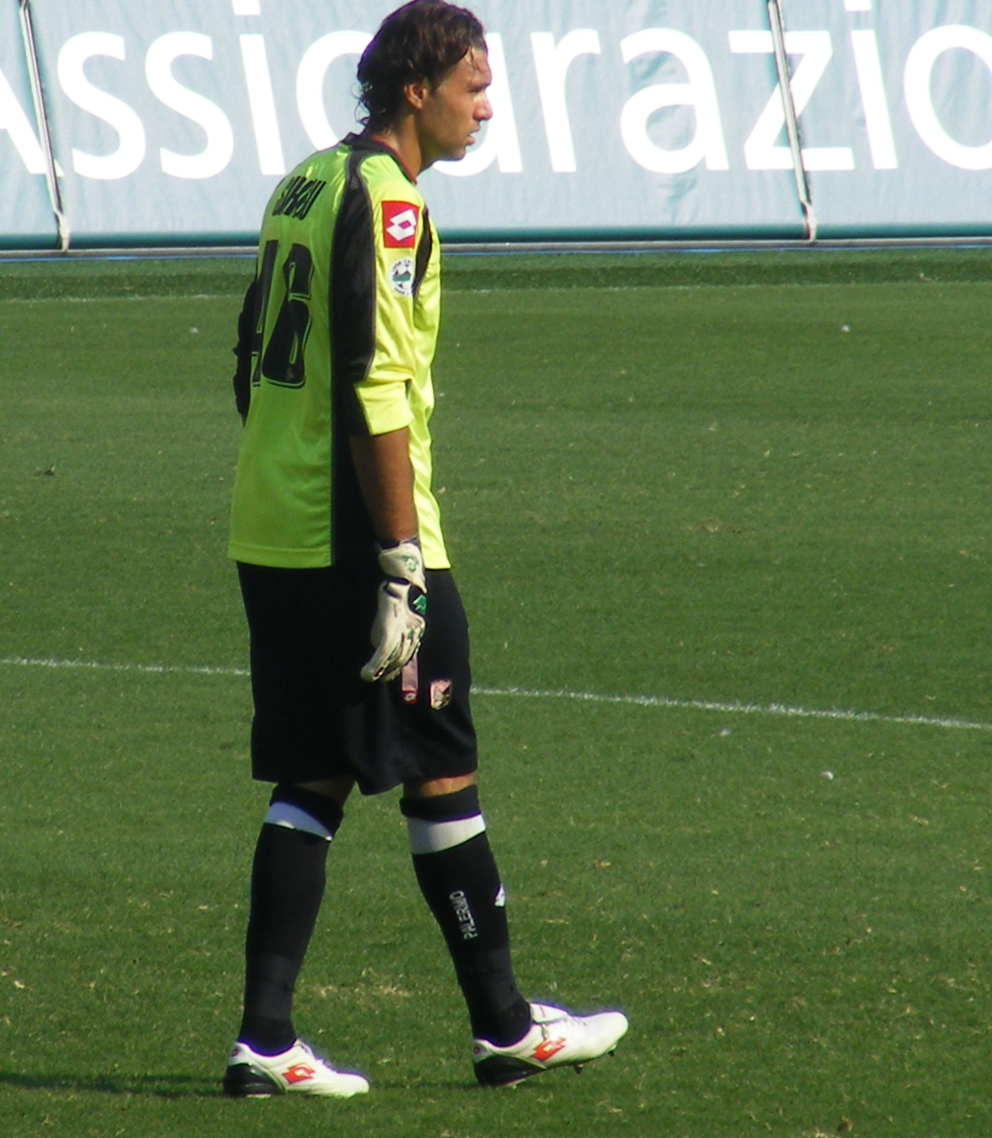 Salvatore Sirigu with Palermo during a match against Lazio.